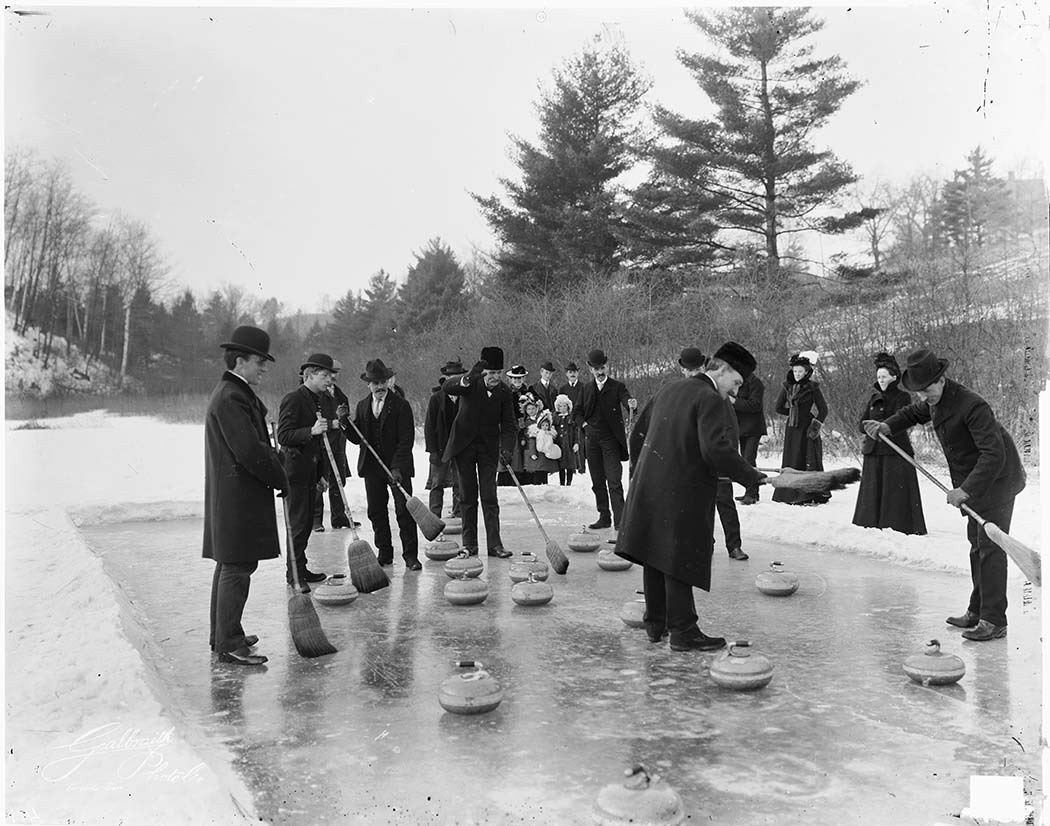 Family of William Rennie, Christmas day curling party, Swansea (now a neighbourhood of Toronto), Ontario, Canada. Rennie (1835-1910) was an agriculturist, seed merchant, farm superintendent, author and avid curler. He founded the William Rennie Company Limited, a purveyor of agricultural and horticultural seeds and supplies. Rennie took a leading role in the development of the area that would be incorporated as the Village of Swansea in 1926. This image is available from the City of Toronto Archives, listed under the archival citation Fonds 1568, Item 334. This tag does not indicate the copyright status of the attached work. A normal copyright tag is still required. See Commons:Licensing for more information.